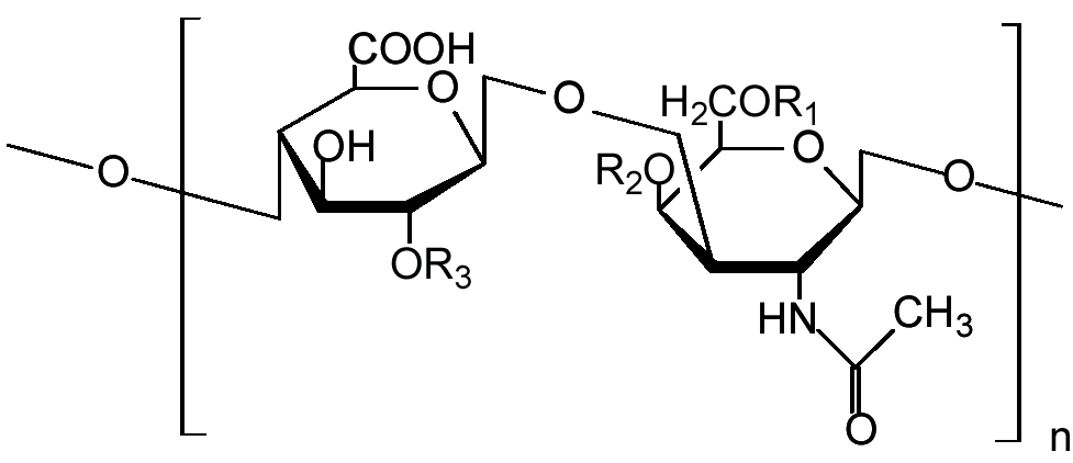 dkasdfjhWEBNFKJHSDKBFKjhwekfjhjhakfja'ka (Original text: Structure of one disaccharide unit of chondroitin sulfate)